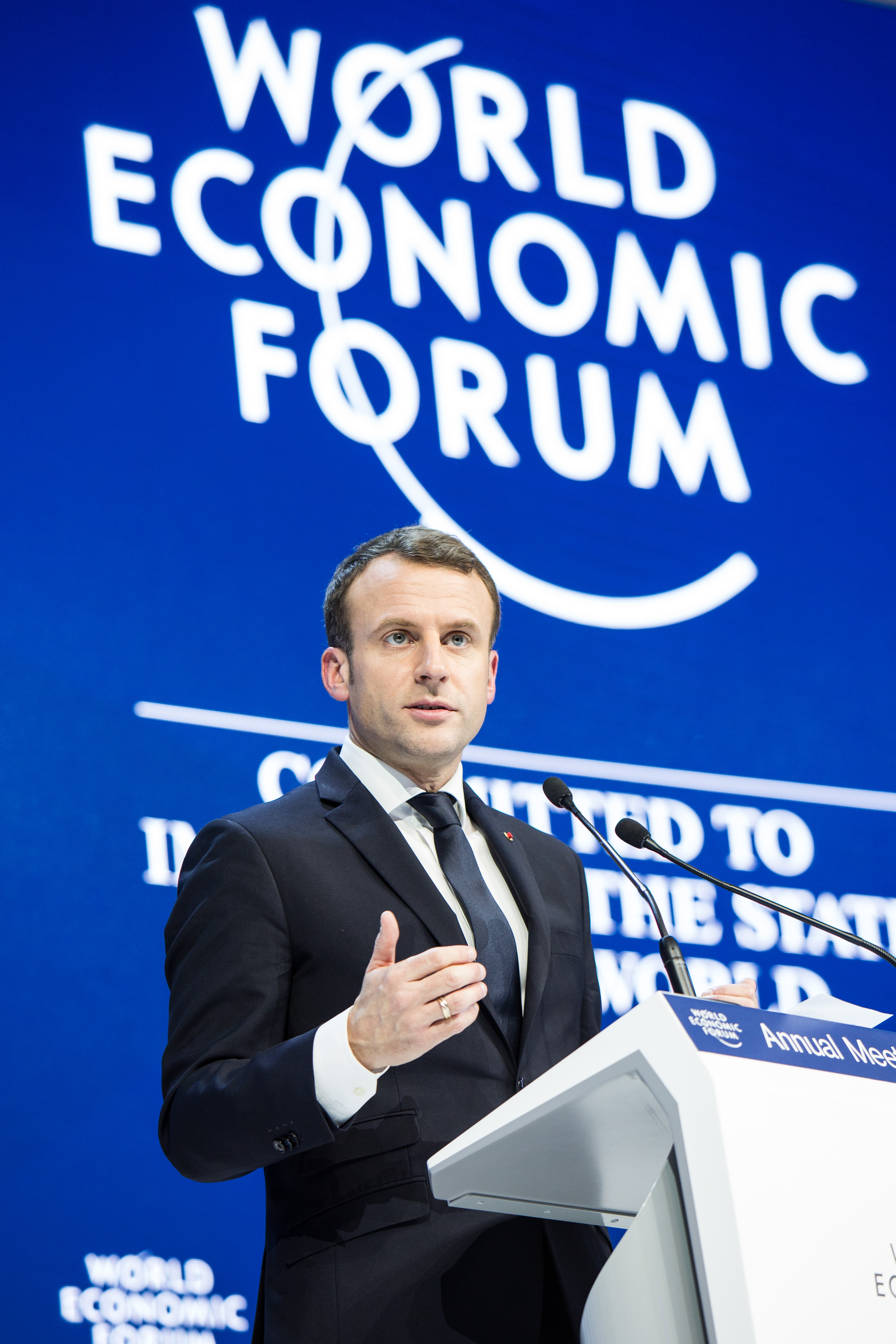 Emmanuel Macron, YGL, President of France capture during the Session: Special Address by Emmanuel Macron, President of France at the Annual Meeting 2018 of the World Economic Forum in Davos, January 24, 2018. Copyright by World Economic Forum / Sikarin Thanachaiary